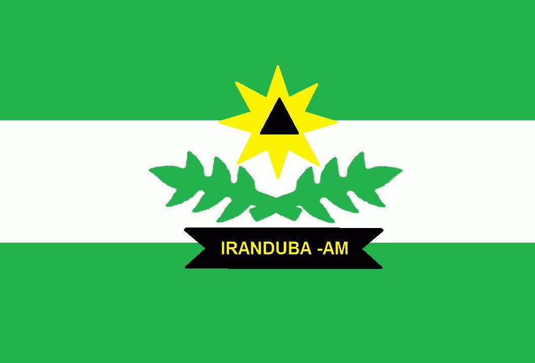 Bandeira de Iranduba